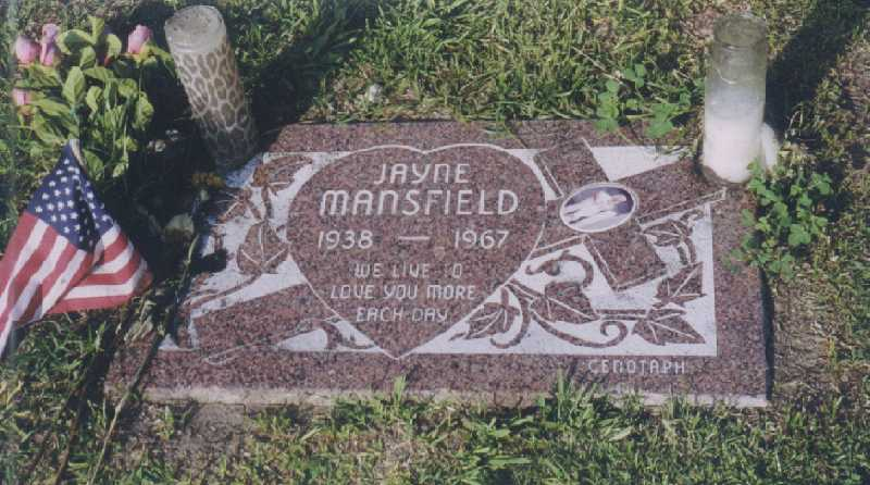 Jayne Mansfield cenotaph – at Hollywood Forever, Hollywood, Los Angeles County, California, USA. Plot: Garden of Legends (formerly Section 8), by the lake. Specifically: This cenotaph shows an incorrect year of birth, she was born 19 April 1933.